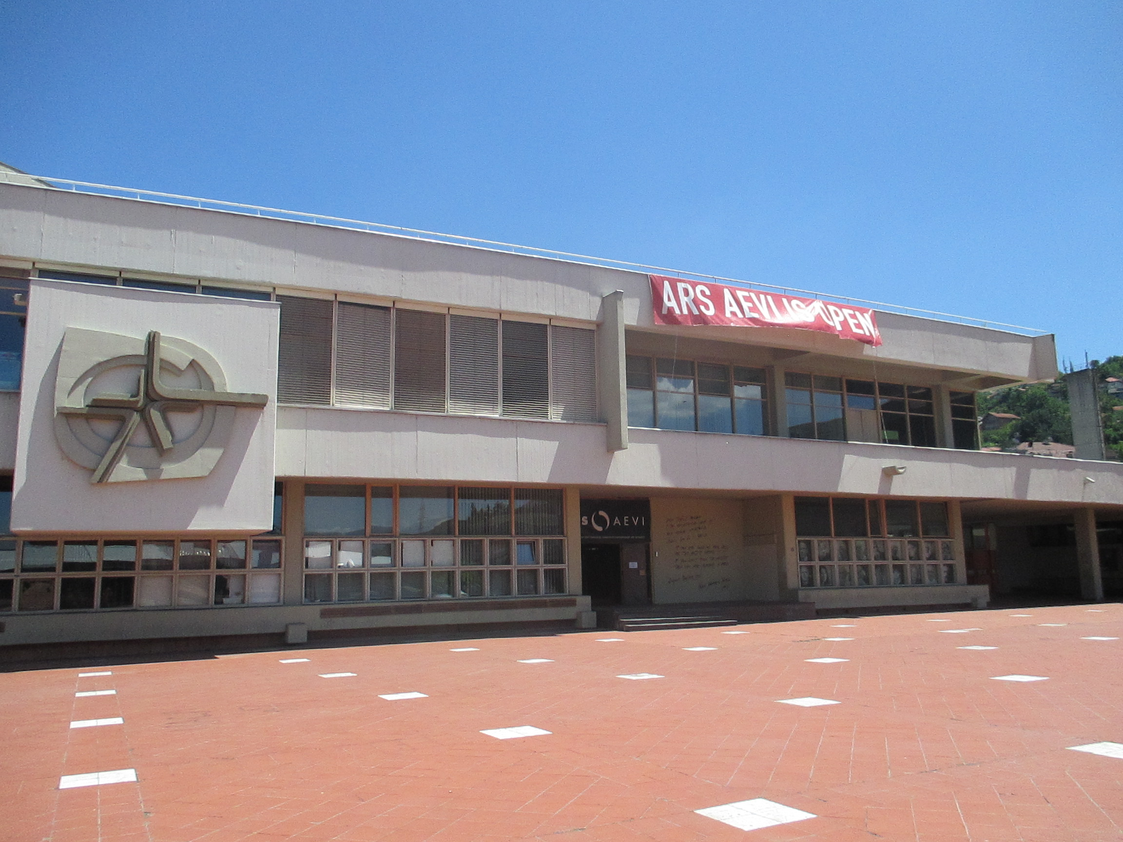 Entrance of the Ars Aevi art gallery at Skenderija in Sarajevo